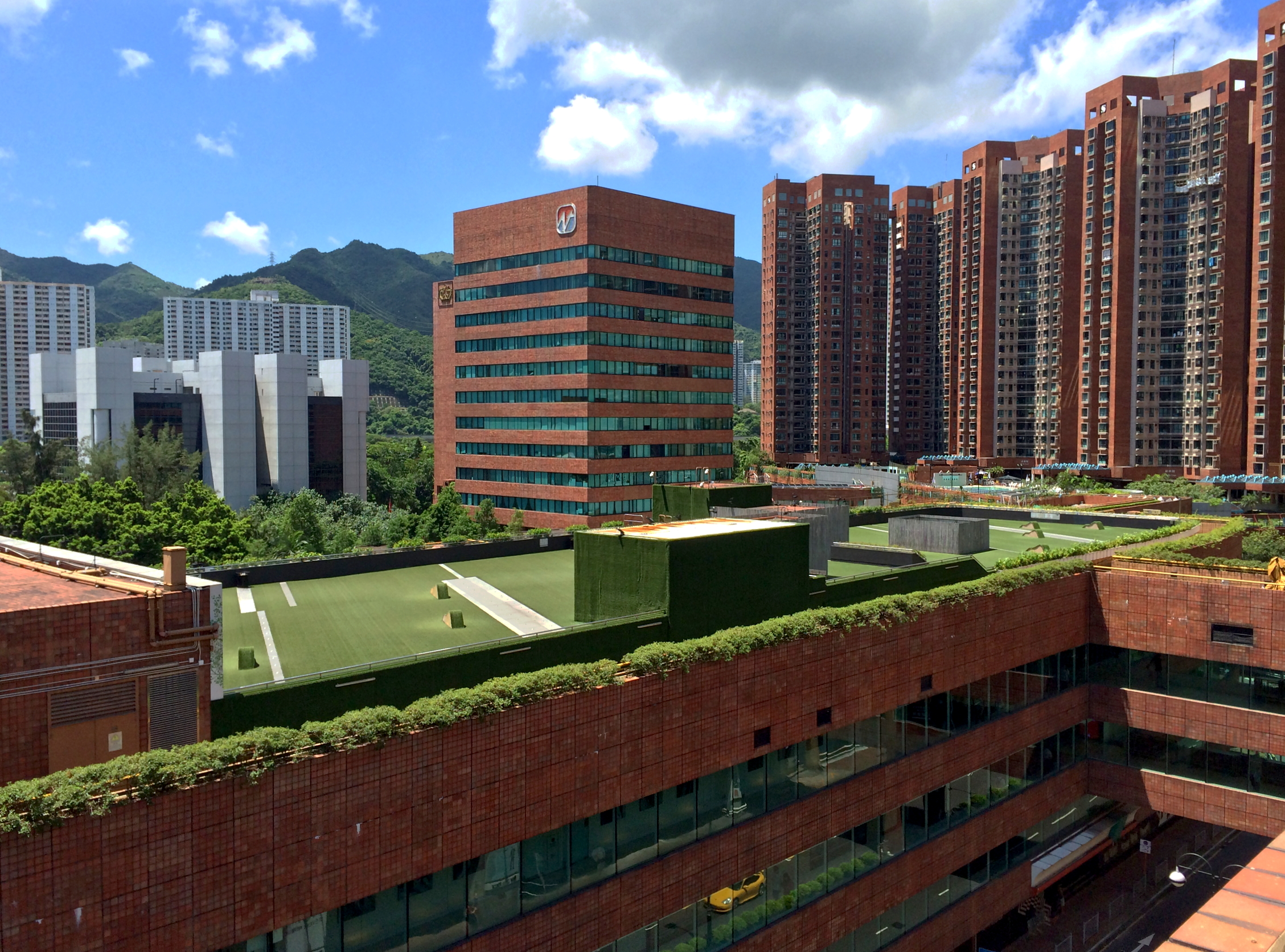 New Town Plaza Level 5 Podium Green Area